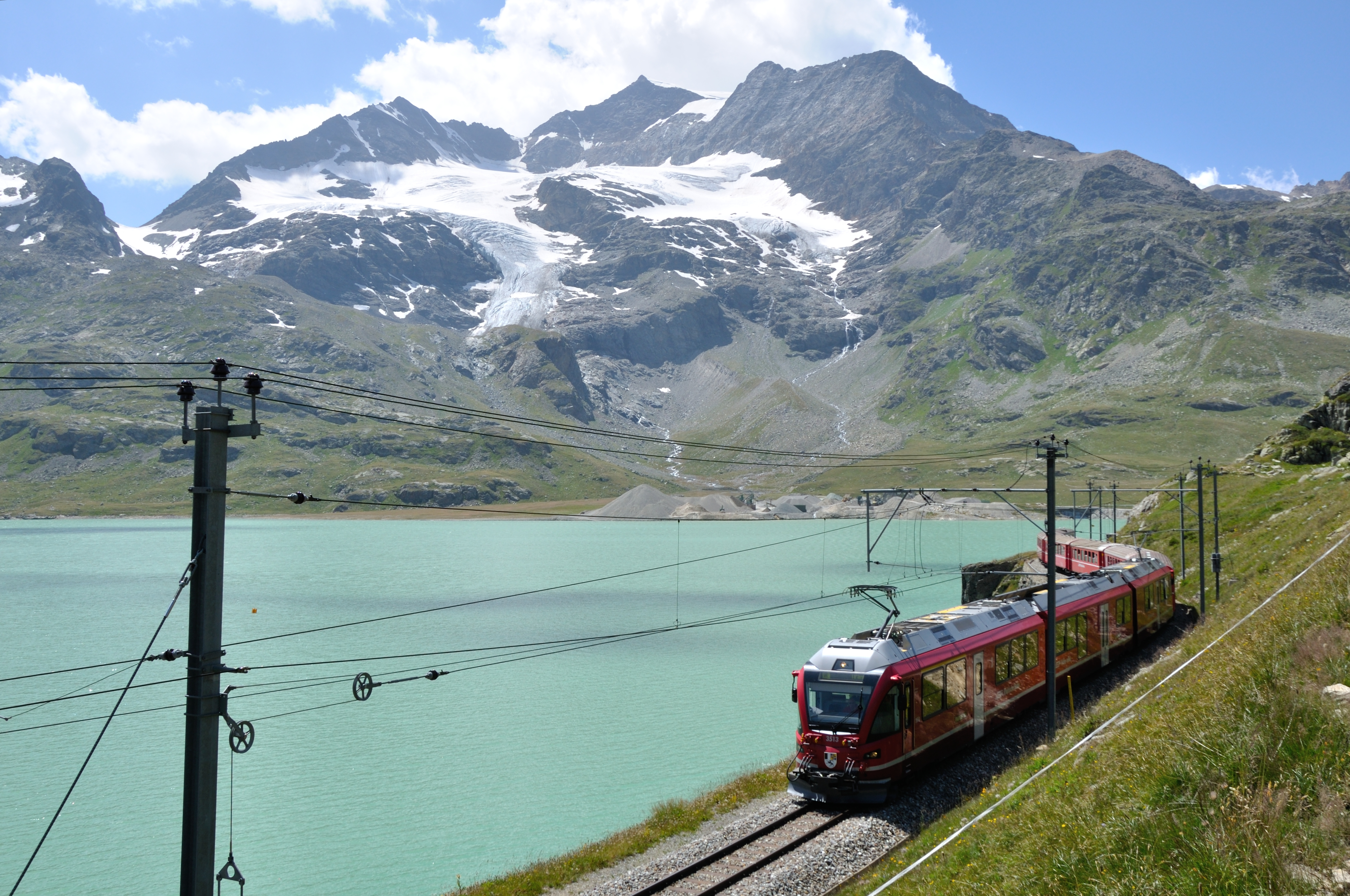 Switzerland, Graubünden, views along the hiking trail from Bernina Pass to Alp Grüm